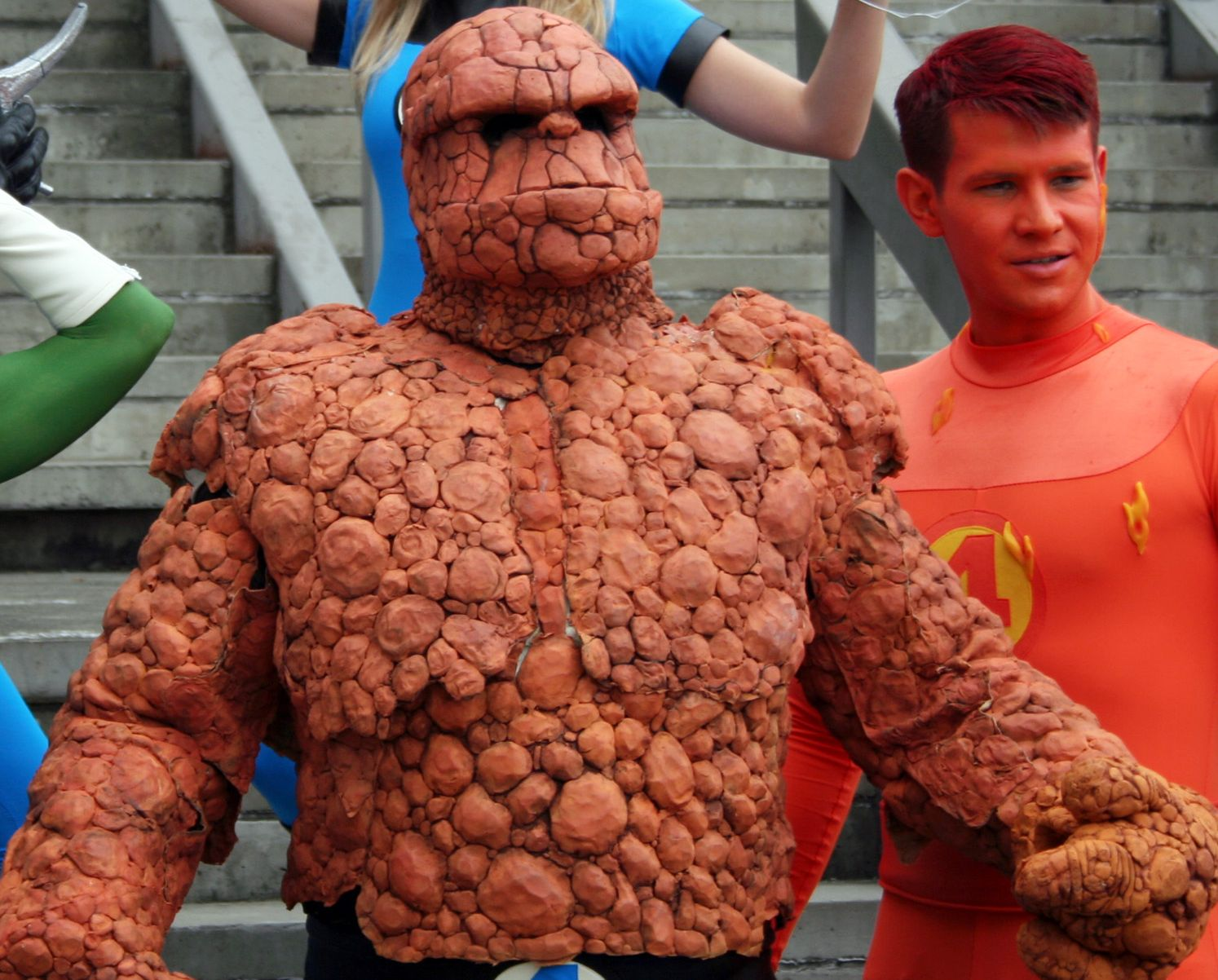 The Thing (Fantastic Four) cosplay